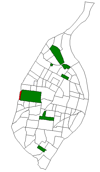 Map of St. Louis Neighborhood #45 (Wydown Skinker)